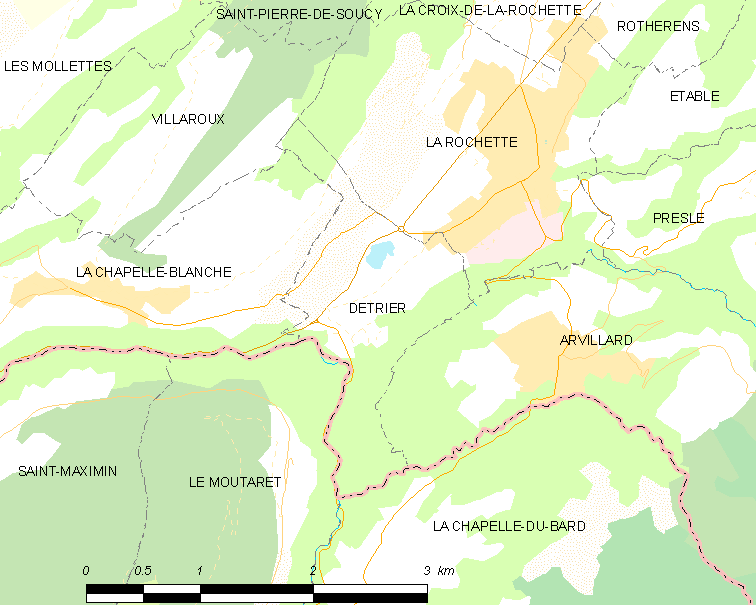 Map of French municipality